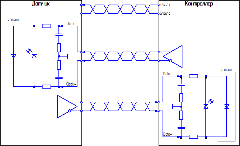 Common structure of SSI